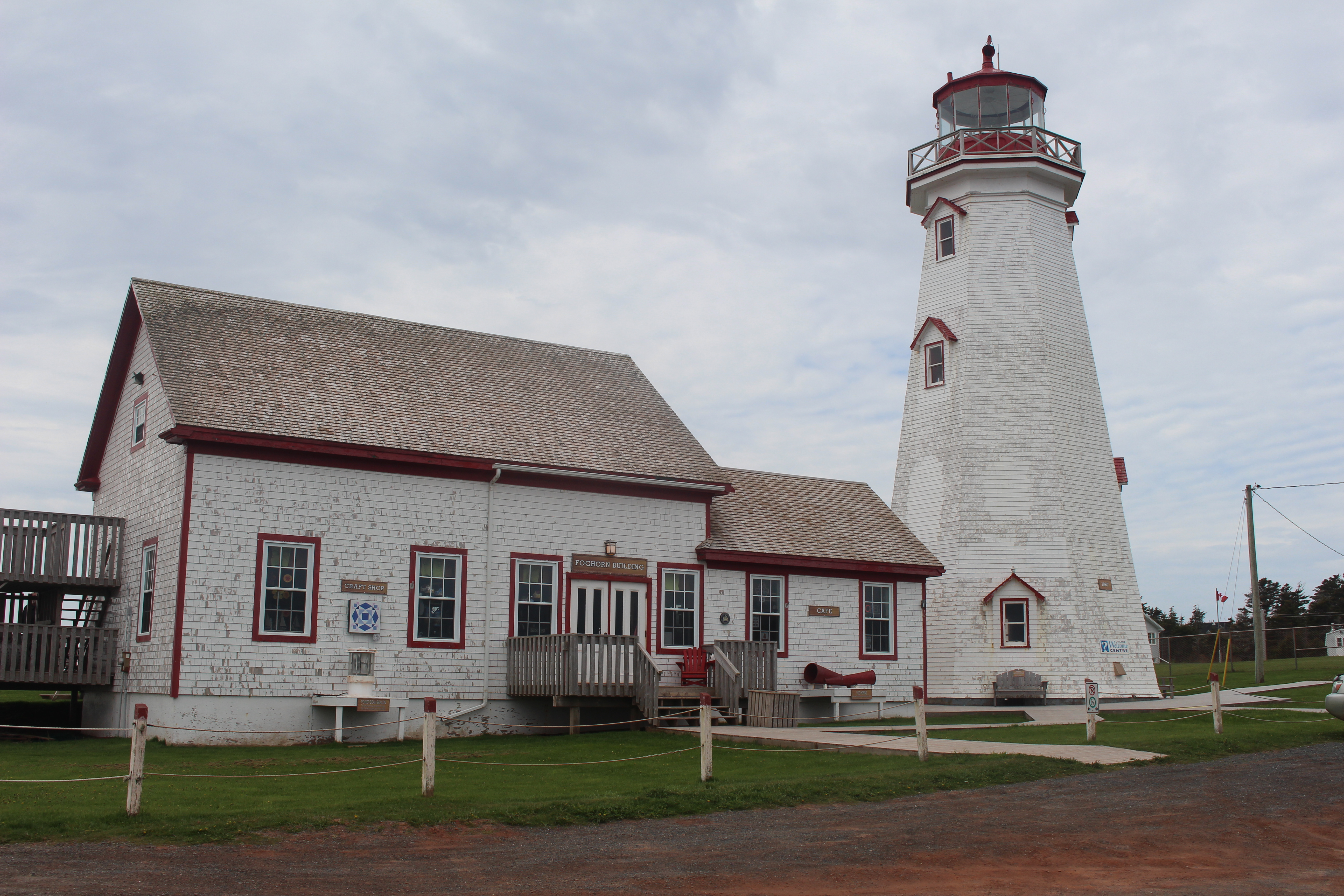 East Point lighthouse, Prince Edward Island